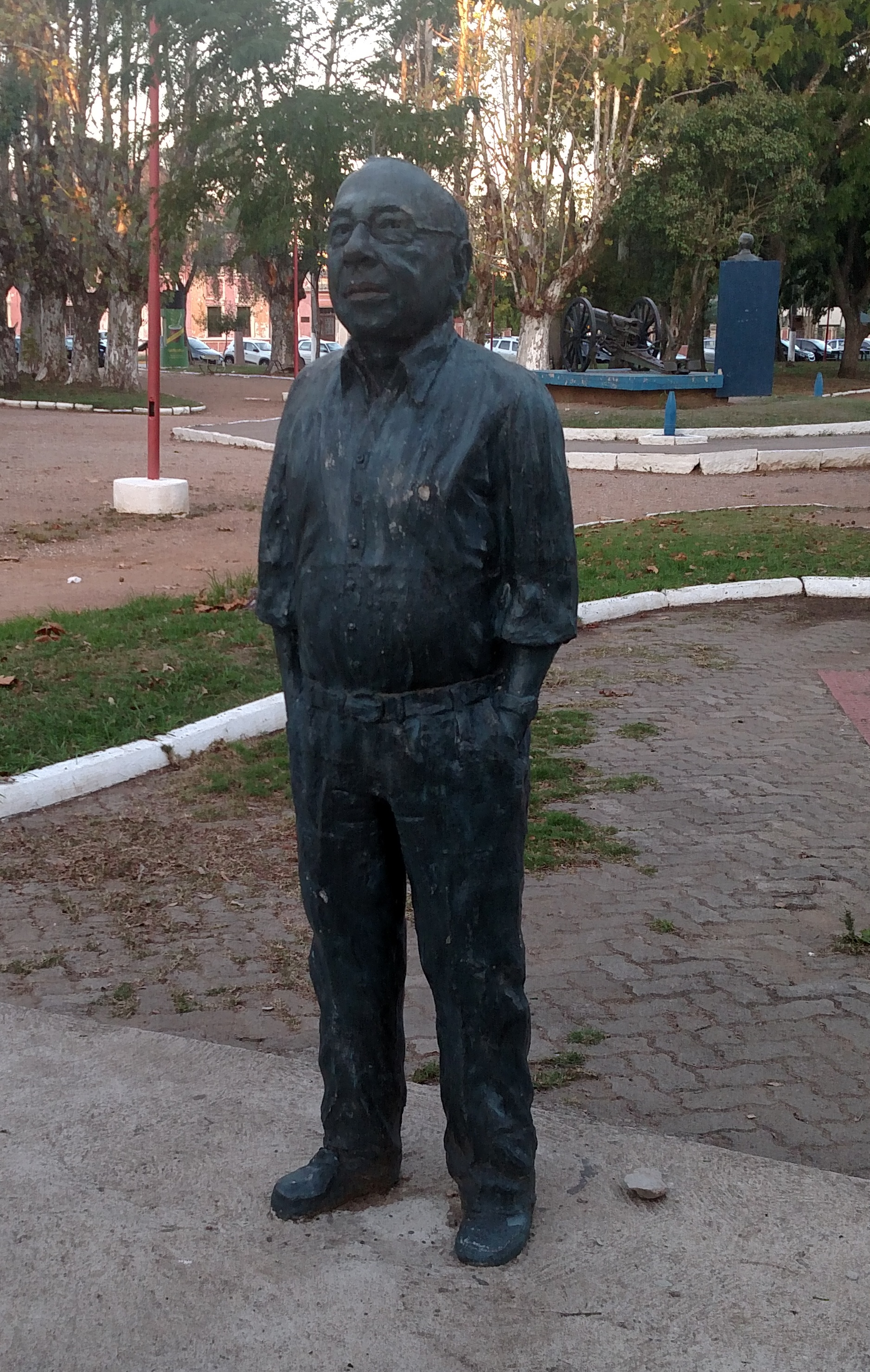 Monumento ao Analista de Bagé